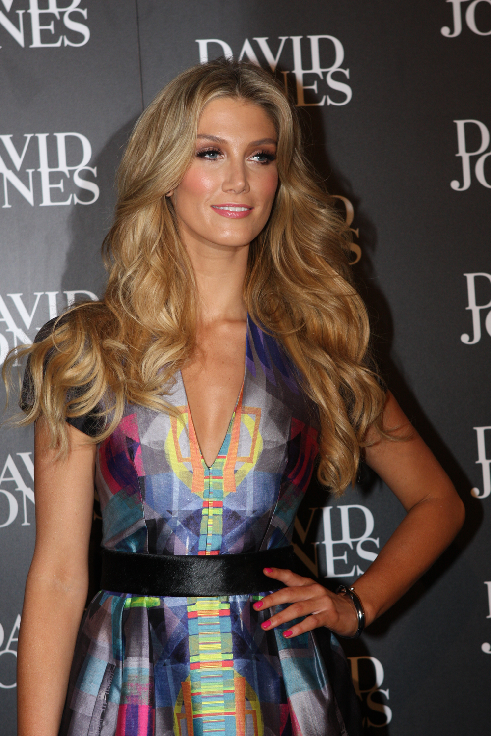 Australian singer Delta Goodrem at the David Jones Autumn Winter Launch, Sydney, Australia